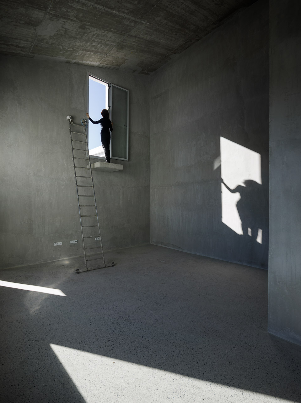 Experimental housing in El Realejo, Granada. Photography: Fernando Alda